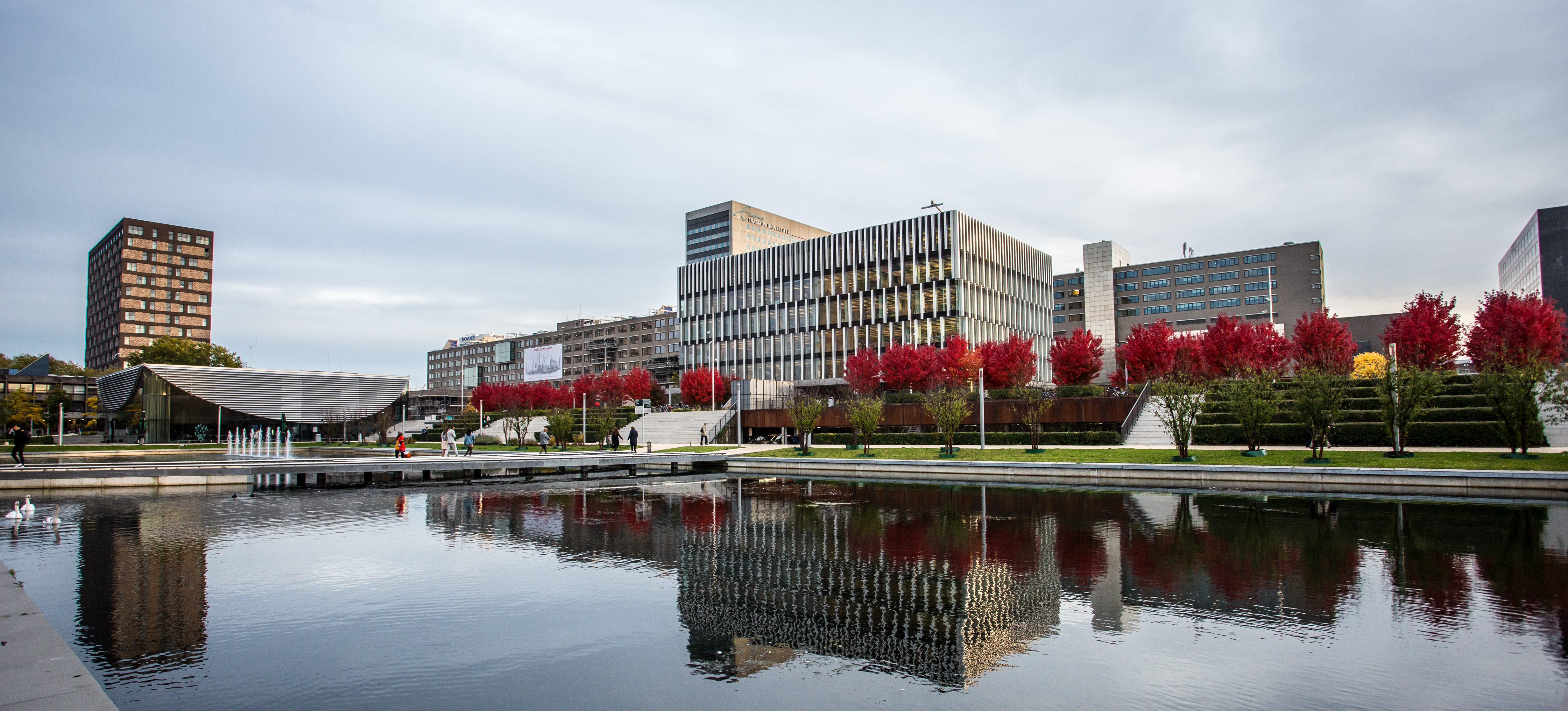 RSM Erasmus University Campus spring